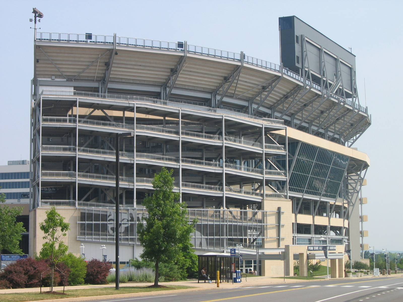 Endzone Club & Upper Concourse Expansion, Summer 2001.